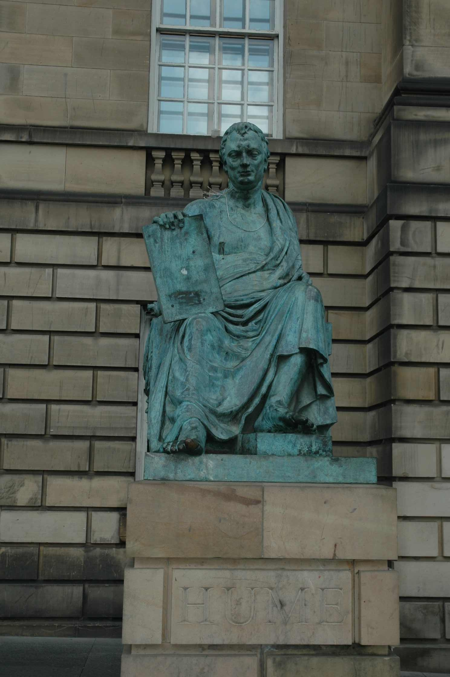 Statue of David Hume (completed 1995) by Sandy Stoddart, located in front of the High Court of Justiciary building, Edinburgh, Scotland.[1].